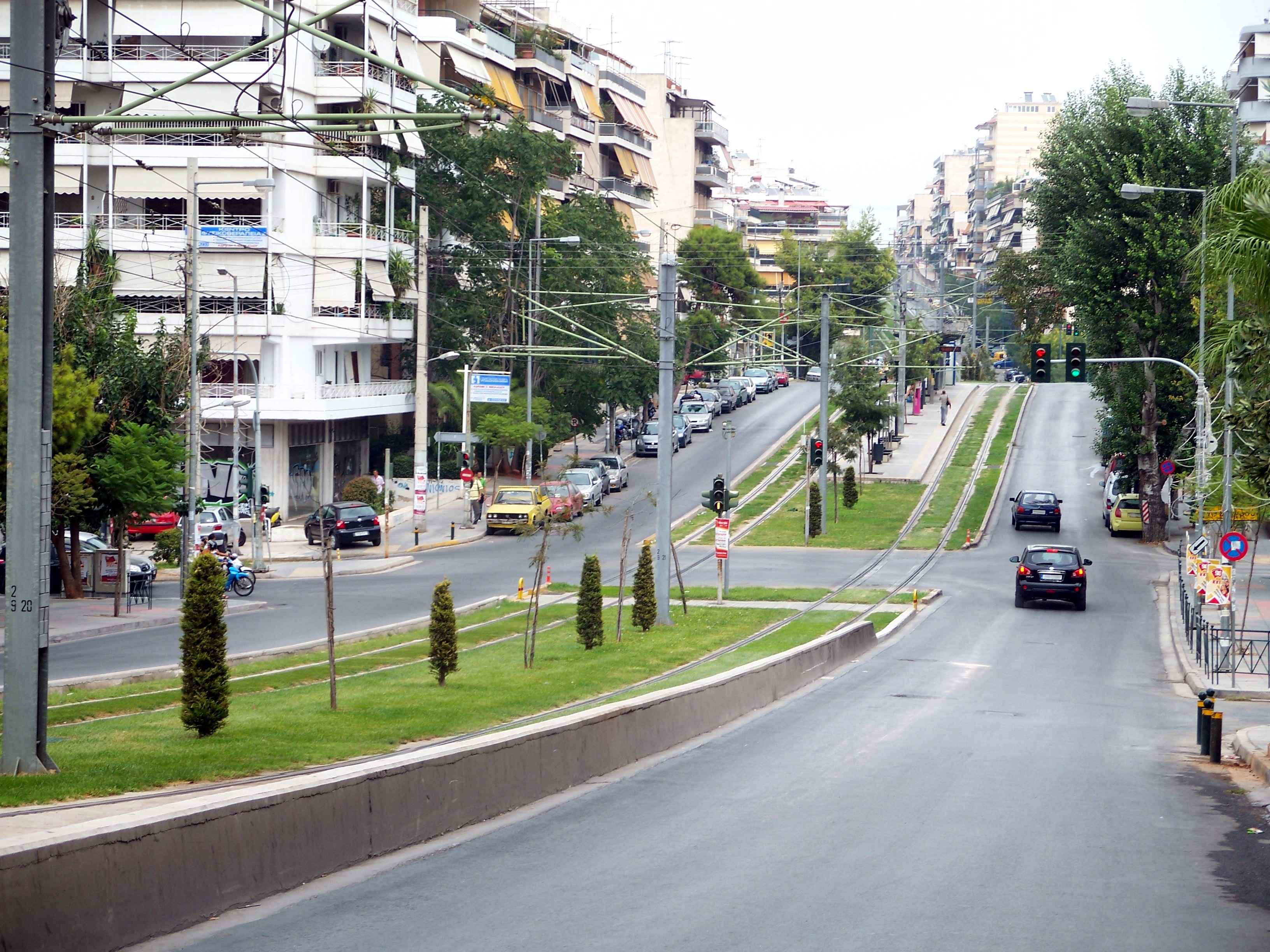 Eleftheriou Venizelou Ave., main street of Nea Smyrni in Athens.